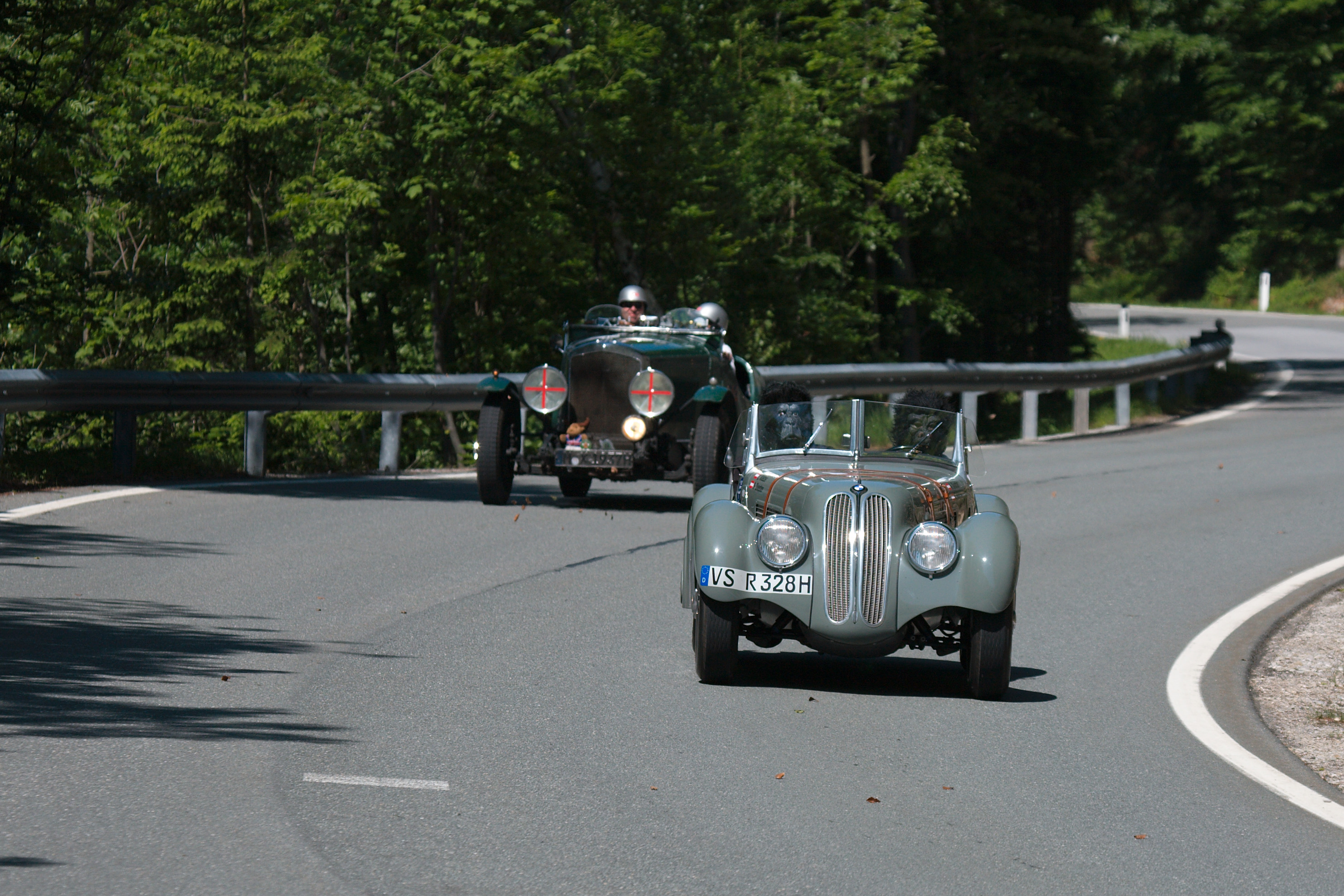 Gaisbergrennen 2009